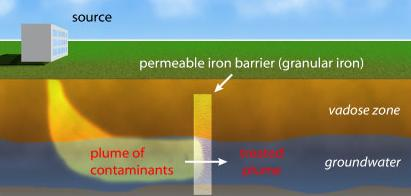 Descriptive picture of the use of an "iron wall" permeable reactive barrier in groundwater remediation